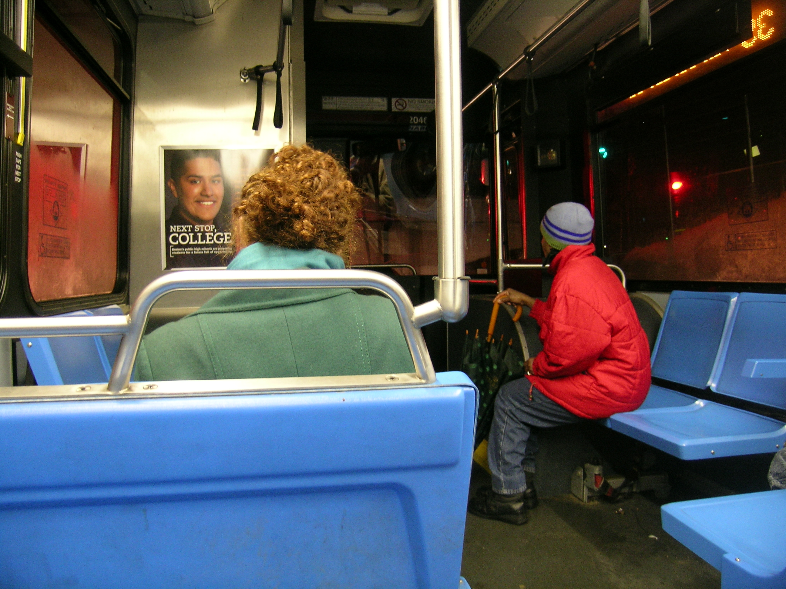 A #39 MBTA bus inbound from Forest Hills Station to Back Bay Station via Huntington Avenue.